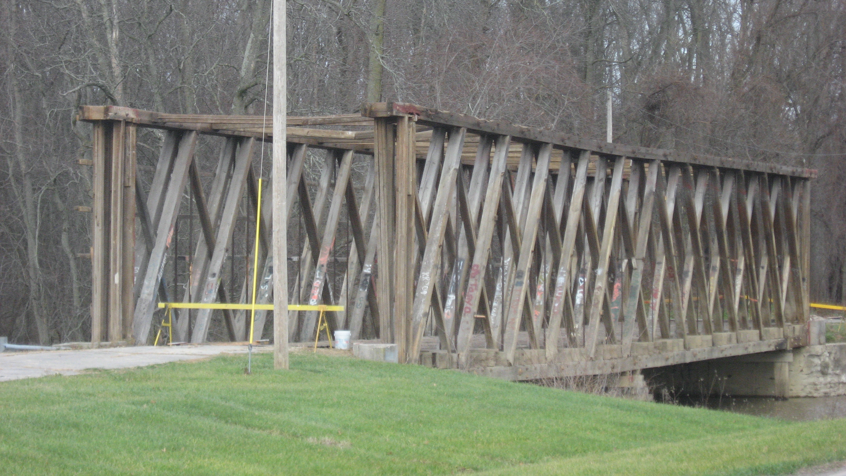 Western portal and southern side of the Ceylon Covered Bridge, which formerly spanned the Wabash River northeast of Ceylon in Wabash Township, Adams County, Indiana, United States. The bridge occupies its original location; the river was channelized and moved away from its old bed in 1907. Built in 1879 and the only remaining covered bridge over the Wabash, it is listed on the National Register of Historic Places.